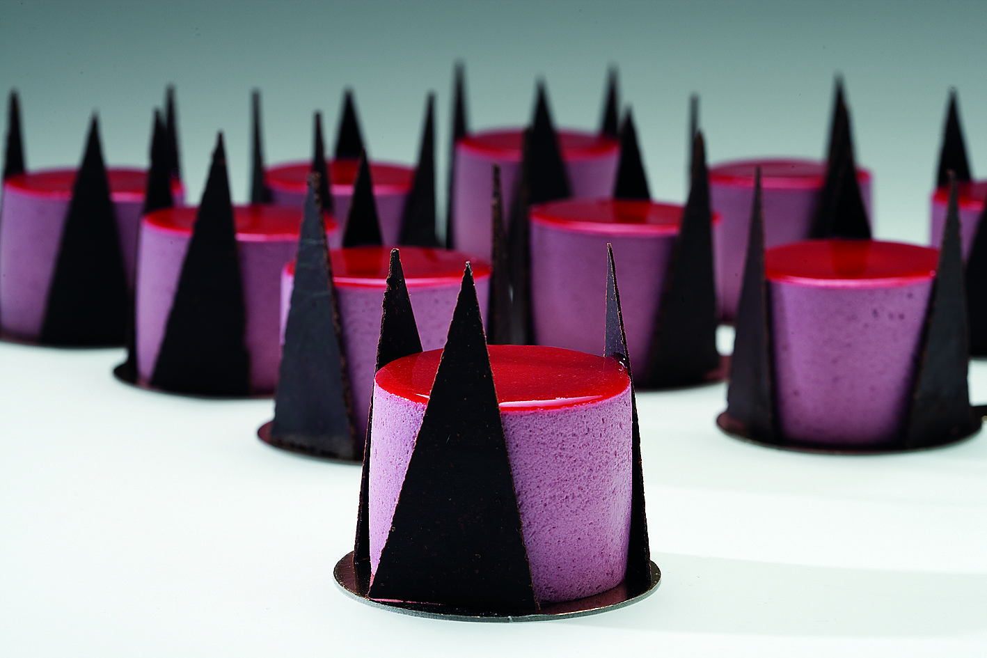 Since the end of the 19th Century pastrys has been eaten to comemorate the Death of 17th Century king Gustav II Adolf. There have never been a standardized reciepe. Picturedpastry is the result of a competition initiated by supporters to The Royal Armoury , Gastronomiska akademin and the radio show Meny